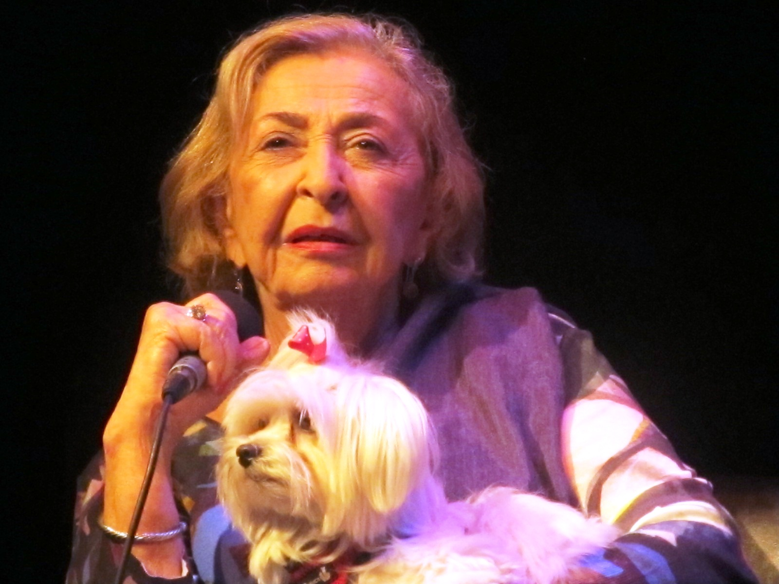 Lea Koenig 2013